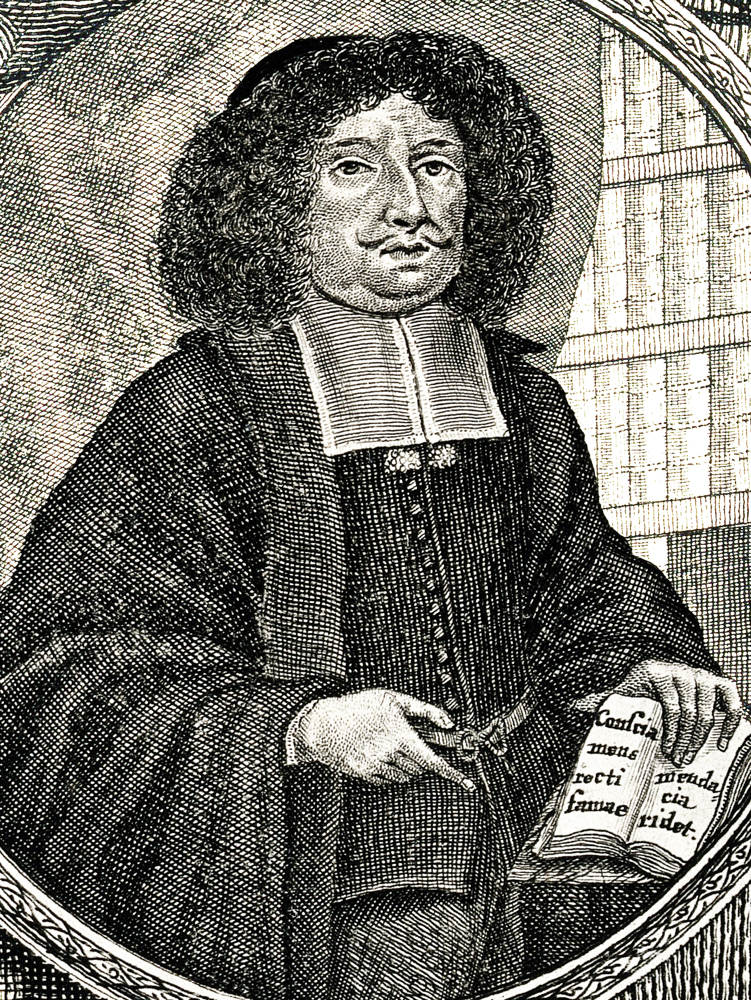 Johann Joachim Becher, German physician and chemist (1635-1682)